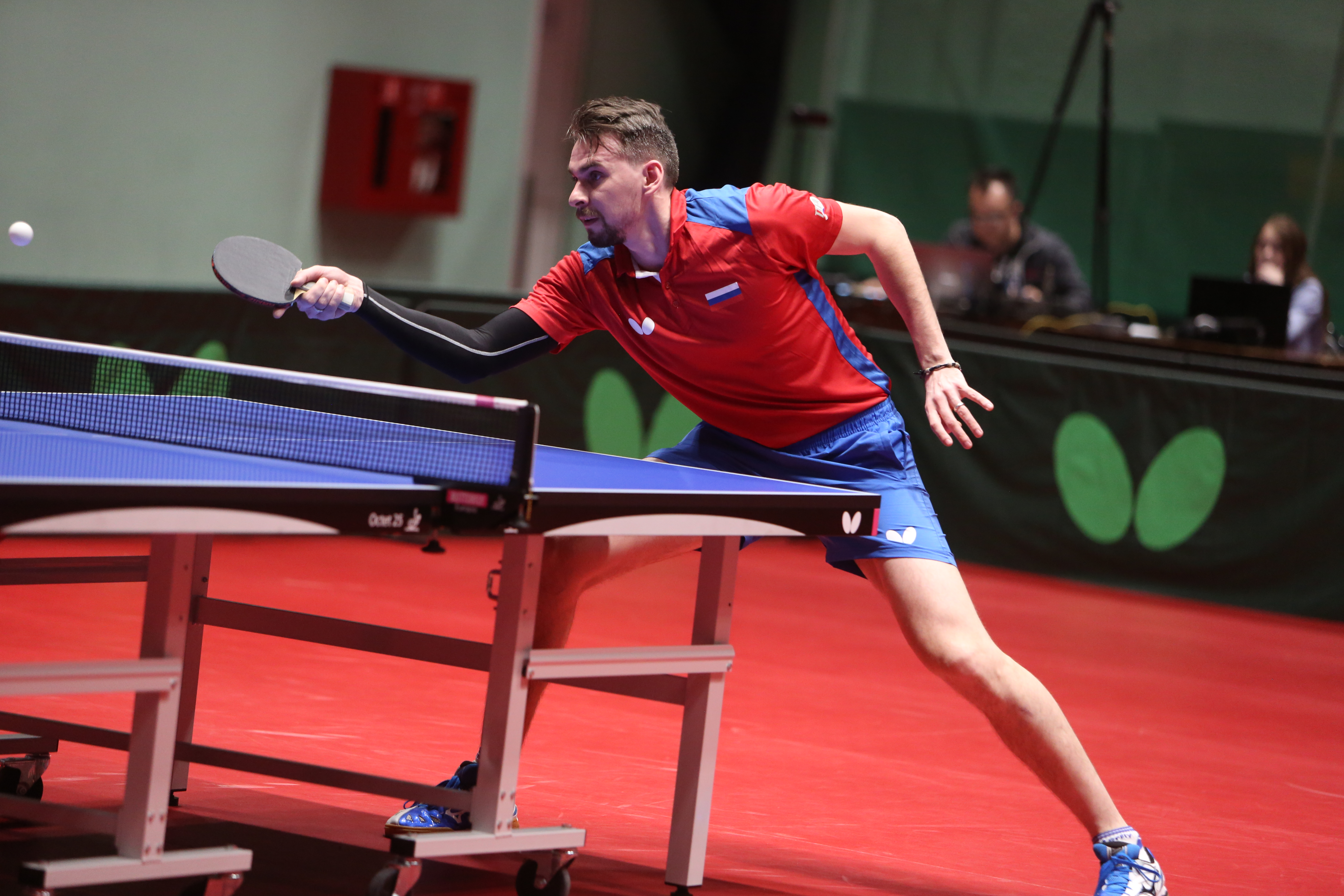 Kirill Skachkov during the match Russia-Greece, the preliminary stage of the European table tennis team championship 2019 (27.03.2018)